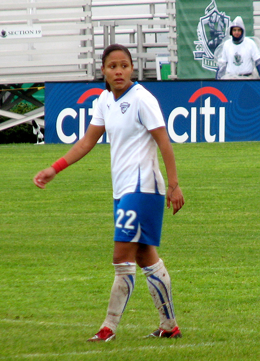 Alex Scott of the (WPS) Womens Professional Soccer Club, Boston Breakers.